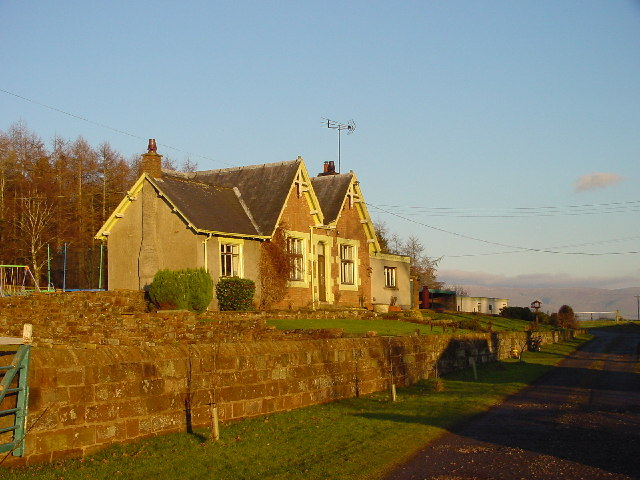 Railway Station Cliburn. Now converted to a house, which operates a "Certified Location" for the Caravan Club.